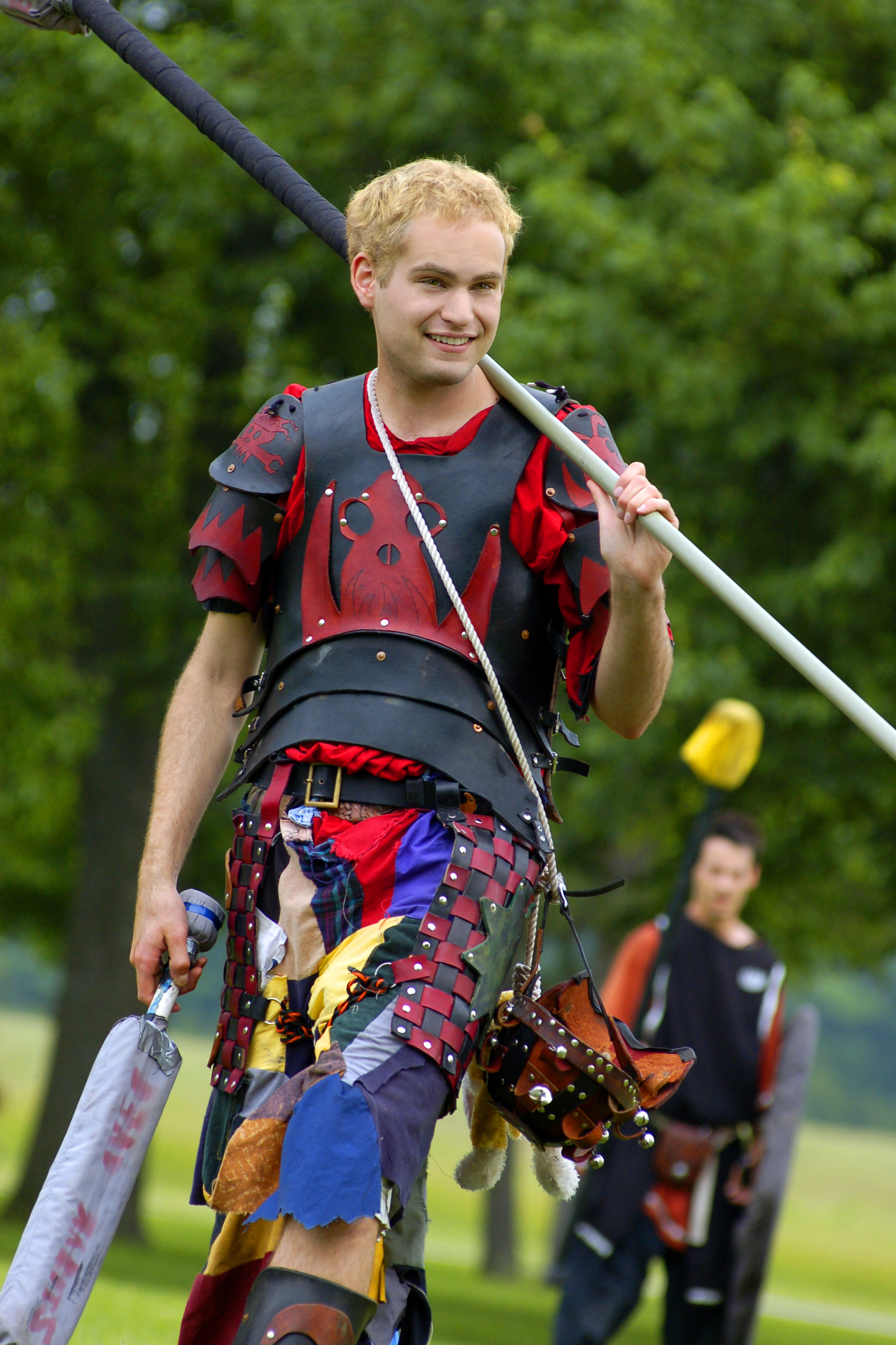 Pictures from a Dagorhir event taking place in Missouri.